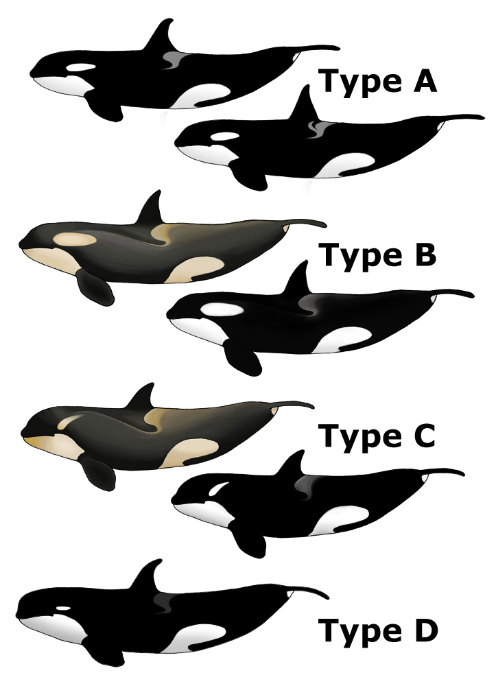 Known types of Killer Whale